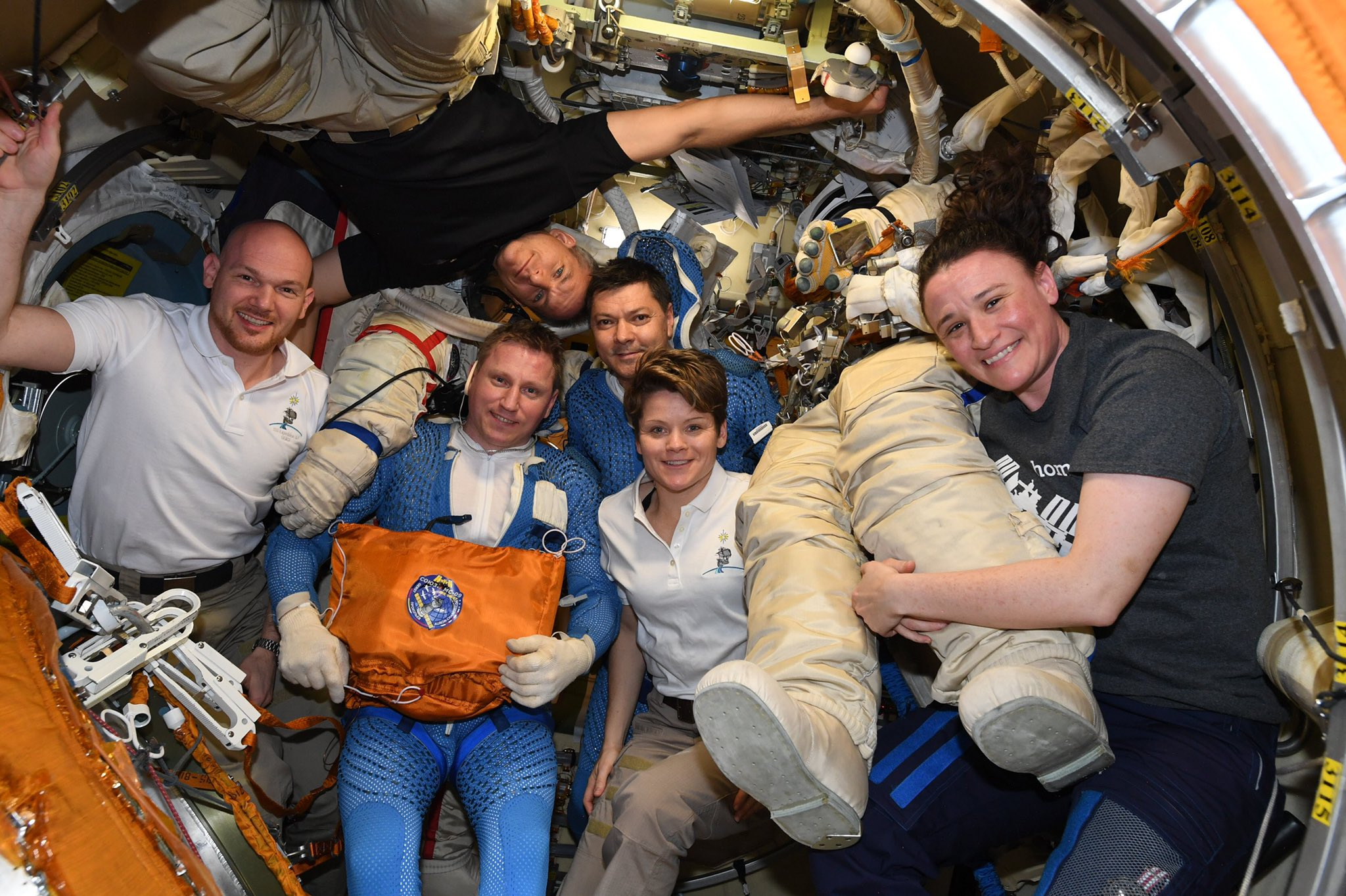 Congratulations to @roscosmos and to our friends Sergey and Oleg on a successful #spacewalk!